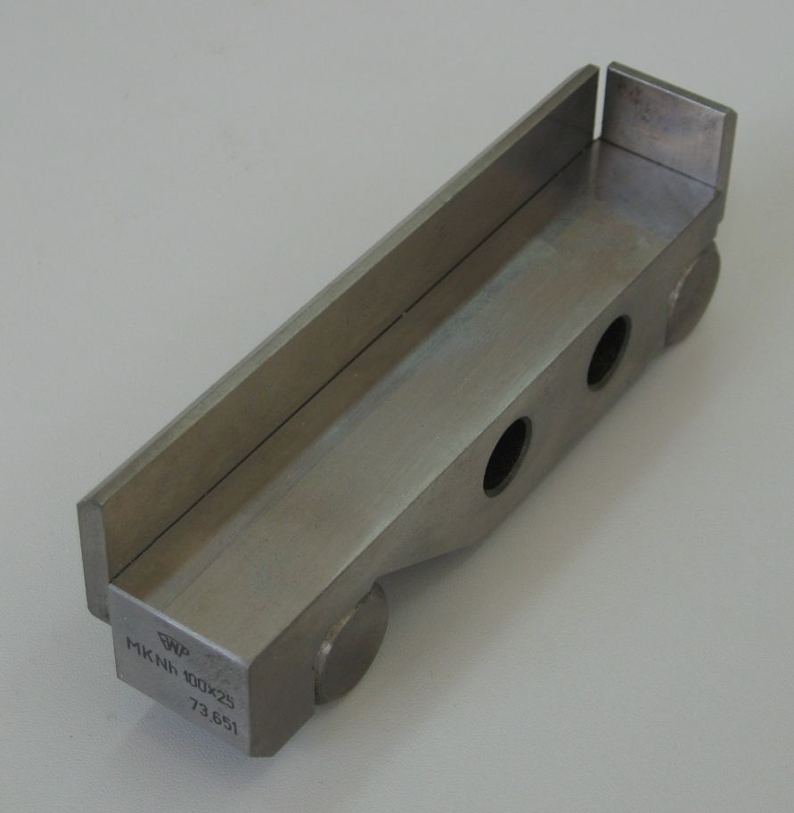 Sine bar 100x25 mm